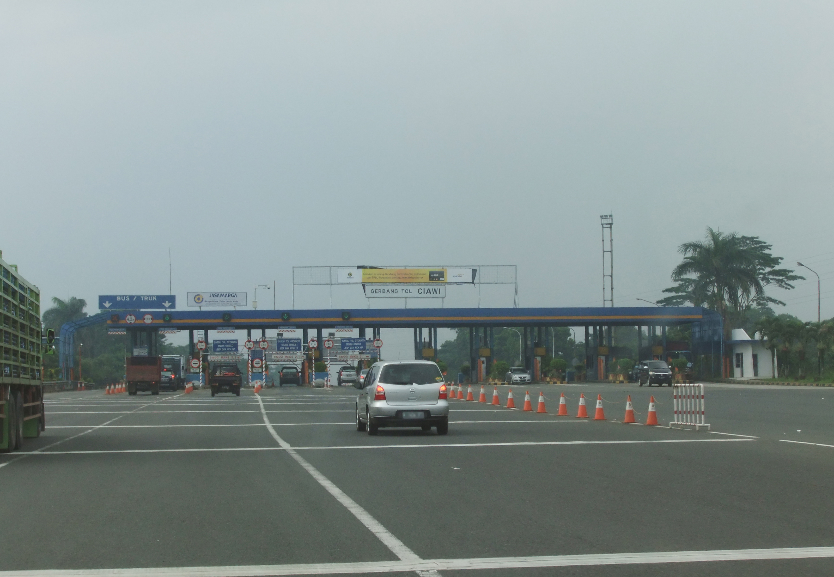 Ciawi Toll Plaza (later renovated)